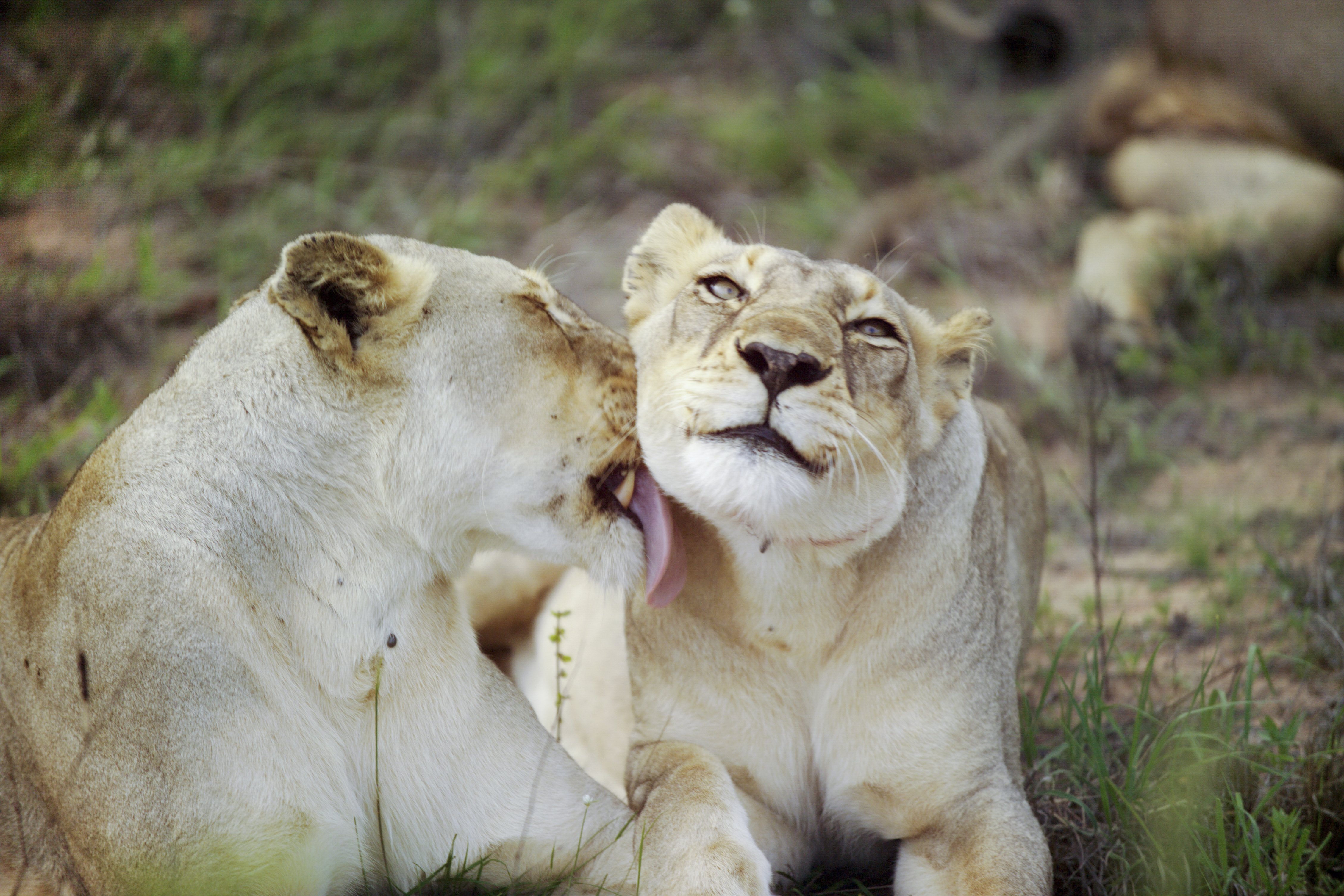 The Transvaal lion (Panthera leo krugeri) of Kruger National Park, South Africa engaged in social grooming behavior.